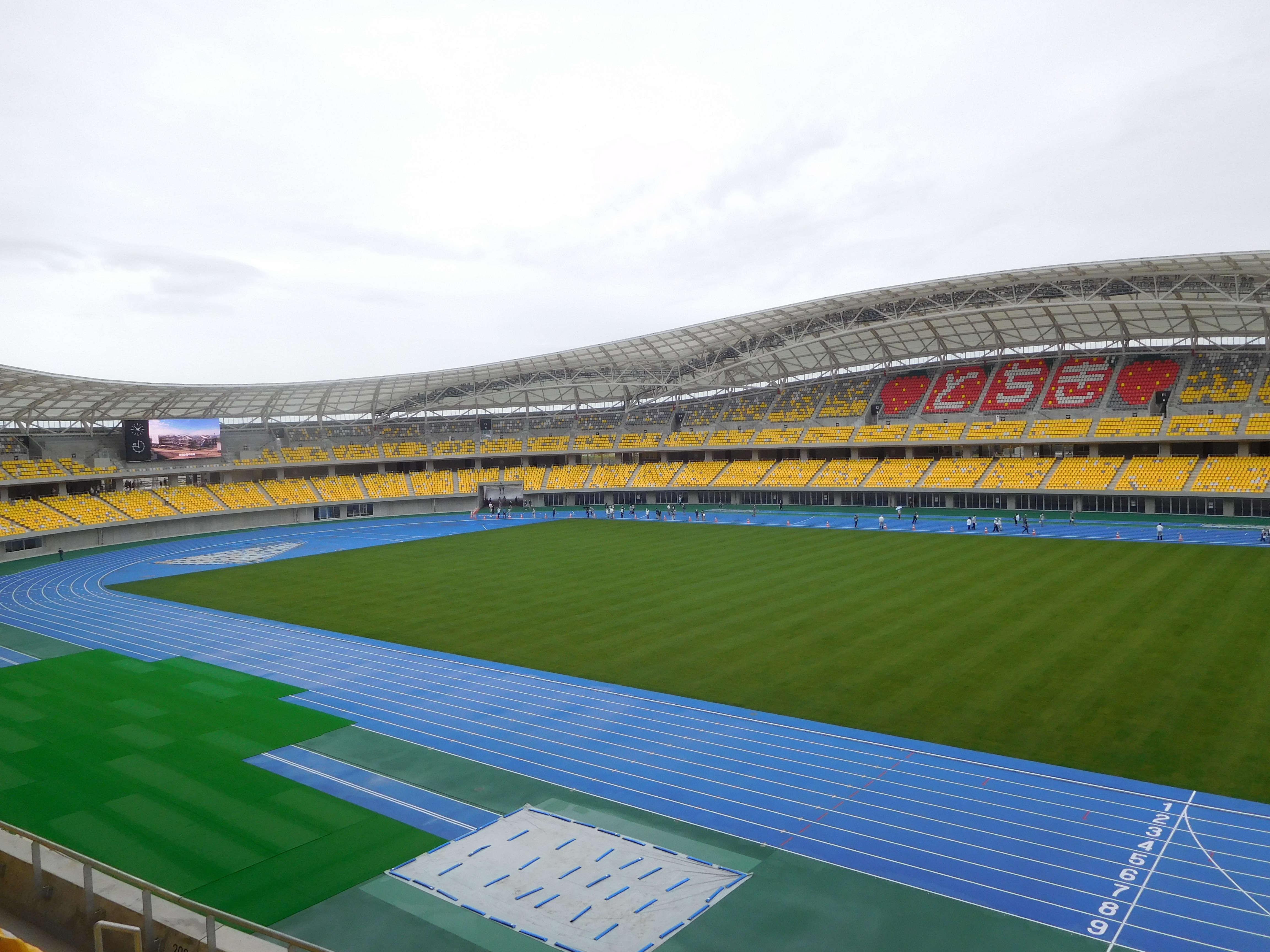 This is kanseki stadium tochigi in Utsunomiya, Tochigi, Japan.